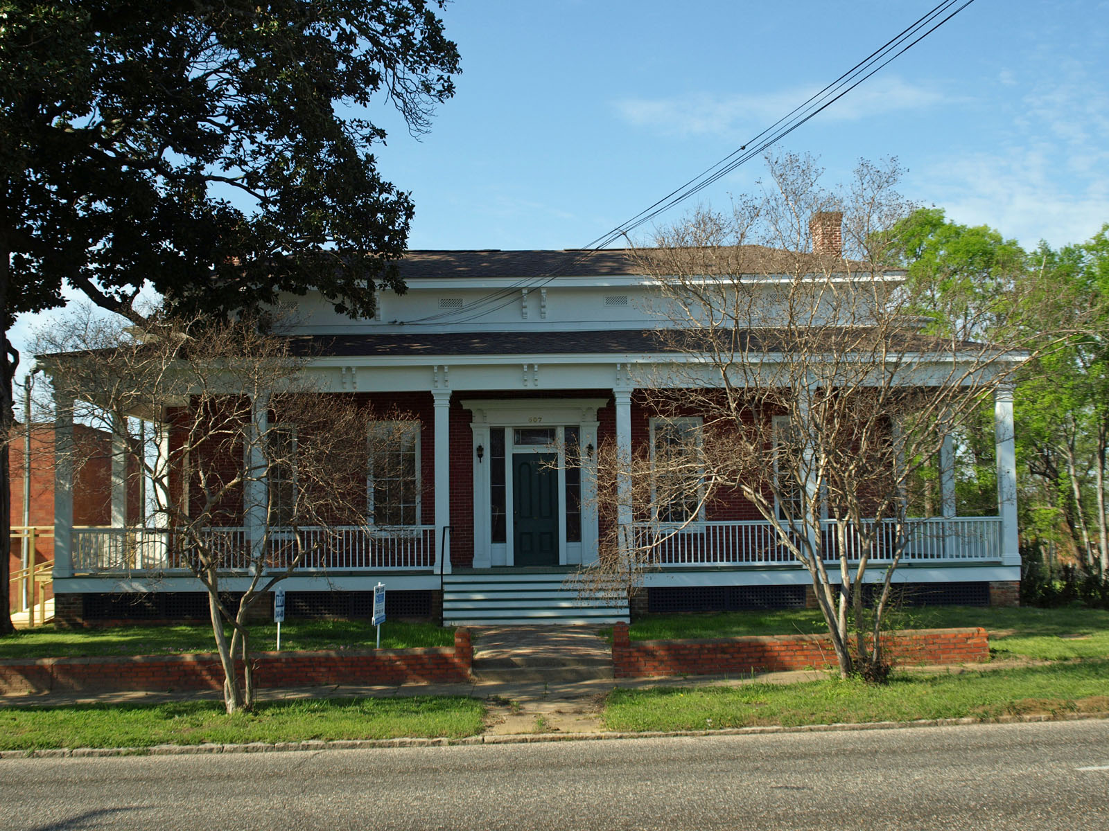 Front (south) view of the Patrick Henry Brittan House in Montgomery, Alabama